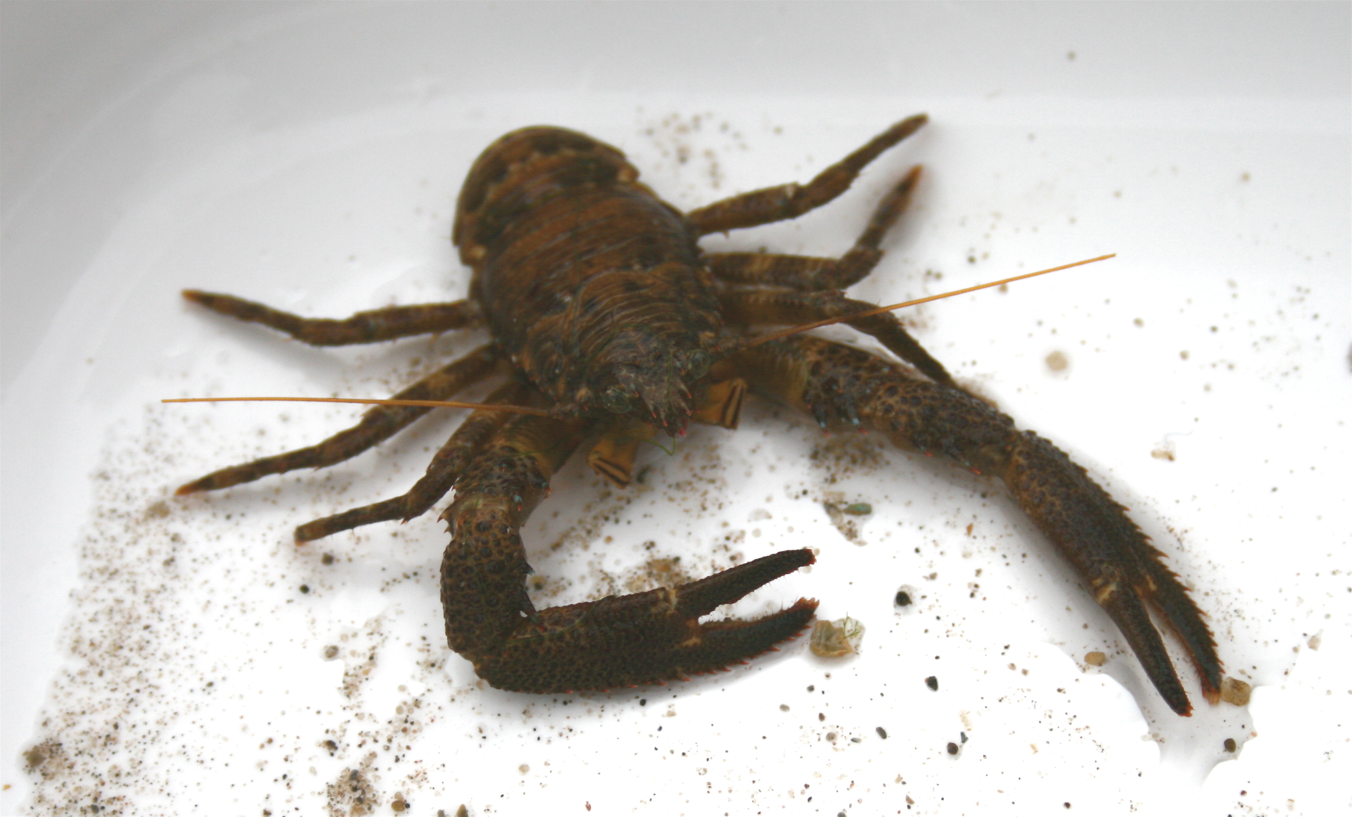 The squat lobster Galathea squamifera